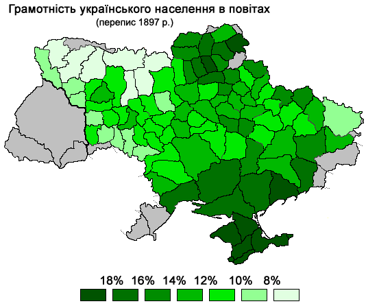 Literacy among ukrainian-speaking orthodox population in counties (without cities), census 1897